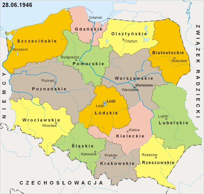 Administrative division of Poland as of June 28, 1946